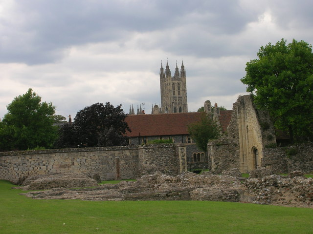 Canterbury Abbey Ruins of St Augustine's Abbey. English Heritage property.